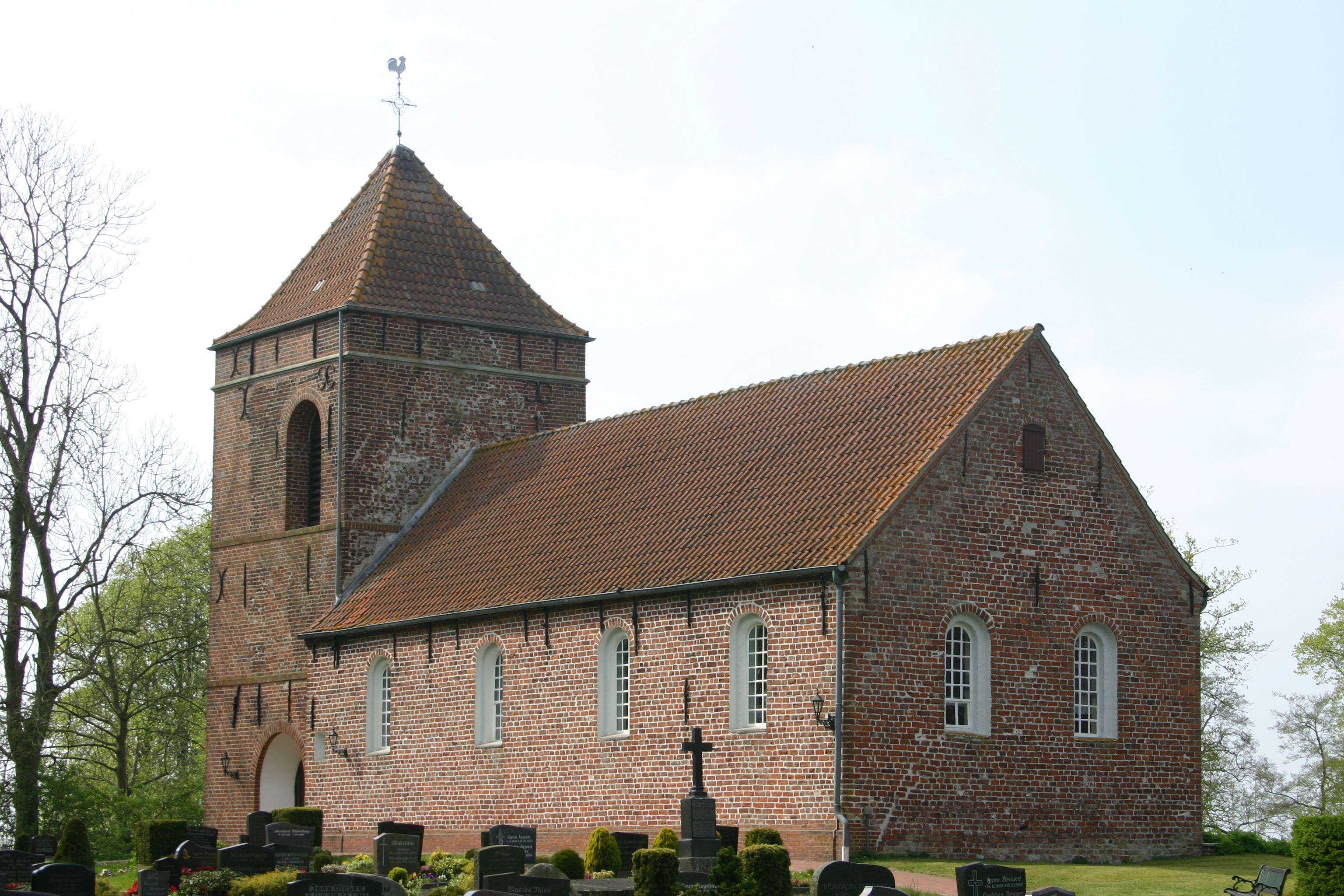 Historic church in Bedekaspel, district of Aurich, East Frisia, Germany